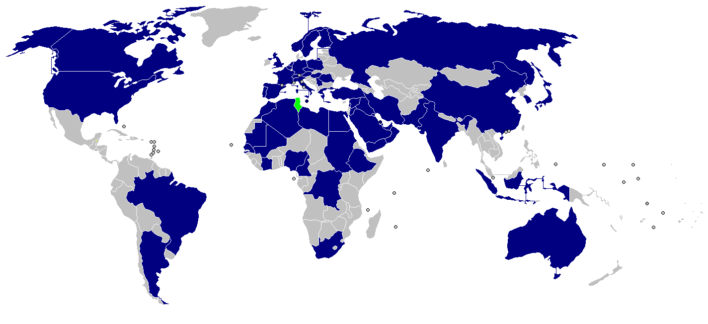 Diplomatic missions of Tunisia.